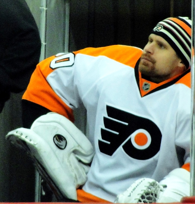 Ilya Bryzgalov of the Philadelphia Flyers looks on from the bench during a December 29, 2011 game against the Pittsburgh Penguins at Consol Energy Center in Pittsburgh, PA.